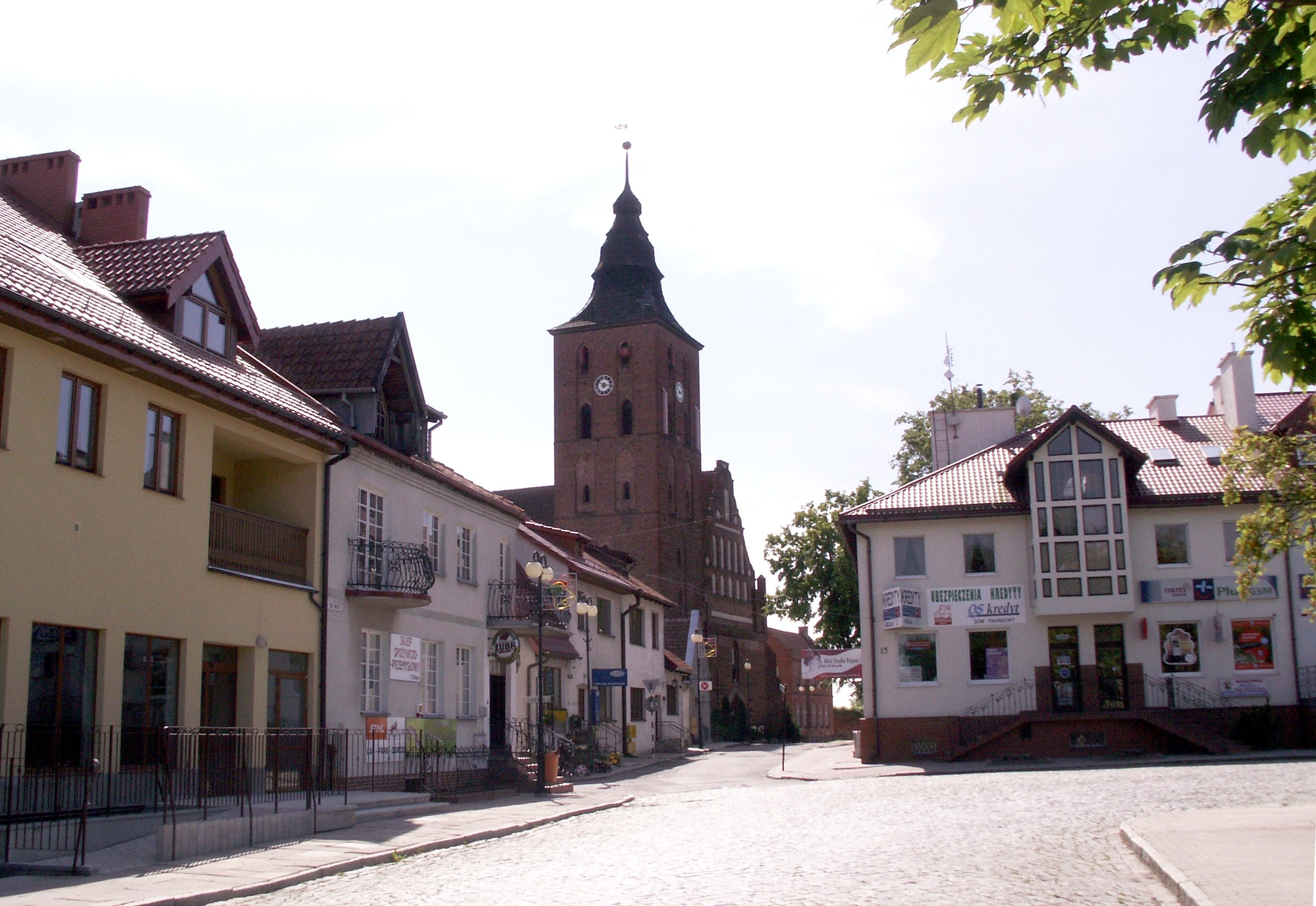 Susz, Poland